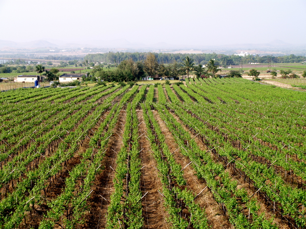 Sula winery in Nasik Maharashtra India Viticulture Agriculture in India